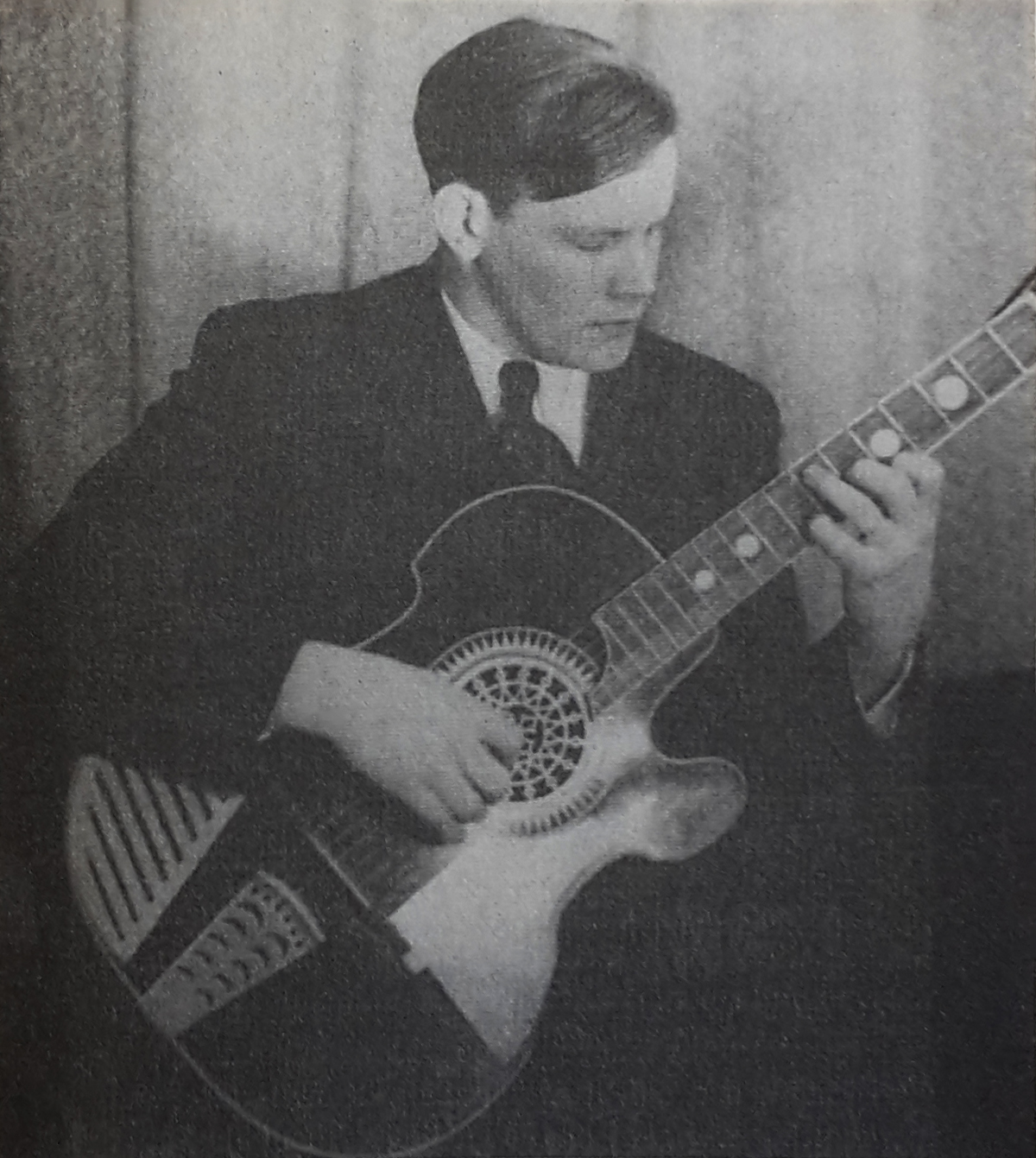 Swedish journalist and missionary Erik Martinsson as a young guitarist in Reykjavik.